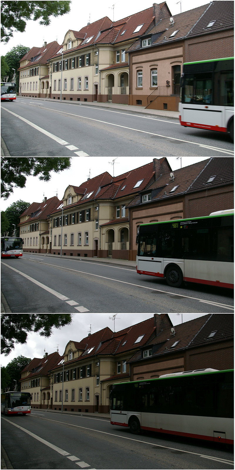 Auto Exposure Bracketing is not working well with moving objects